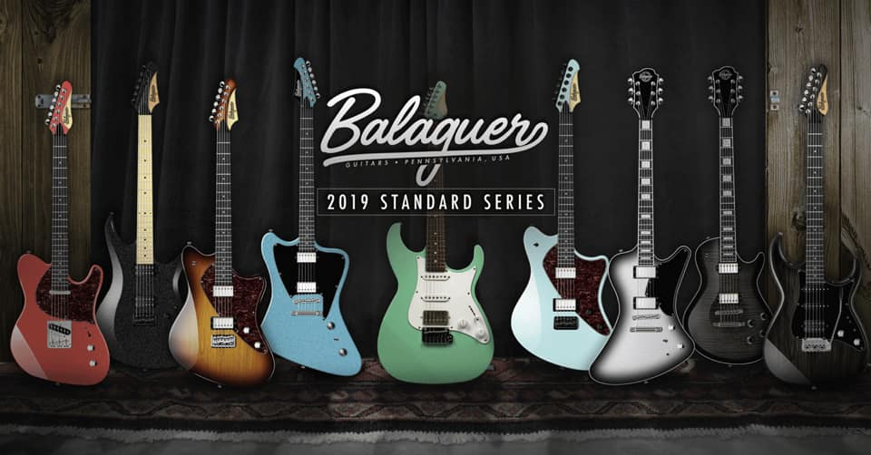 Balaguer Guitars Standard Series